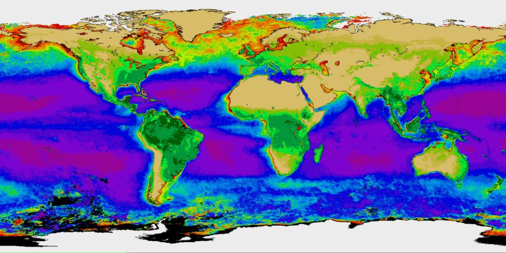 The "global biosphere" - a composite of ocean color (phytoplankton concentration) from the CZCS instrument, and NDVI on the land, from AVHRR